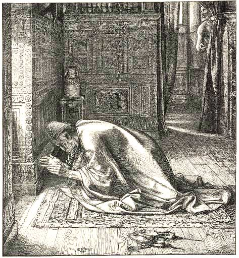 "Daniel's Prayer" (1865) by Sir Edward Poynter, from illustrations for Dalziel's Bible Gallery (eventually published in 1881) in the Tate.